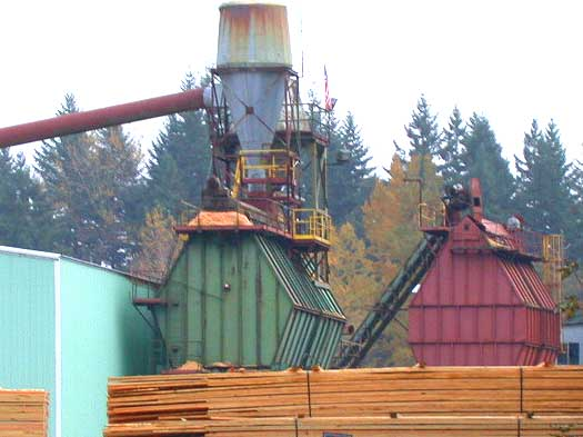 Wood mill in Boring (taken Nov. 13, 2004) © 2004 Matthew Trump Images of Oregon